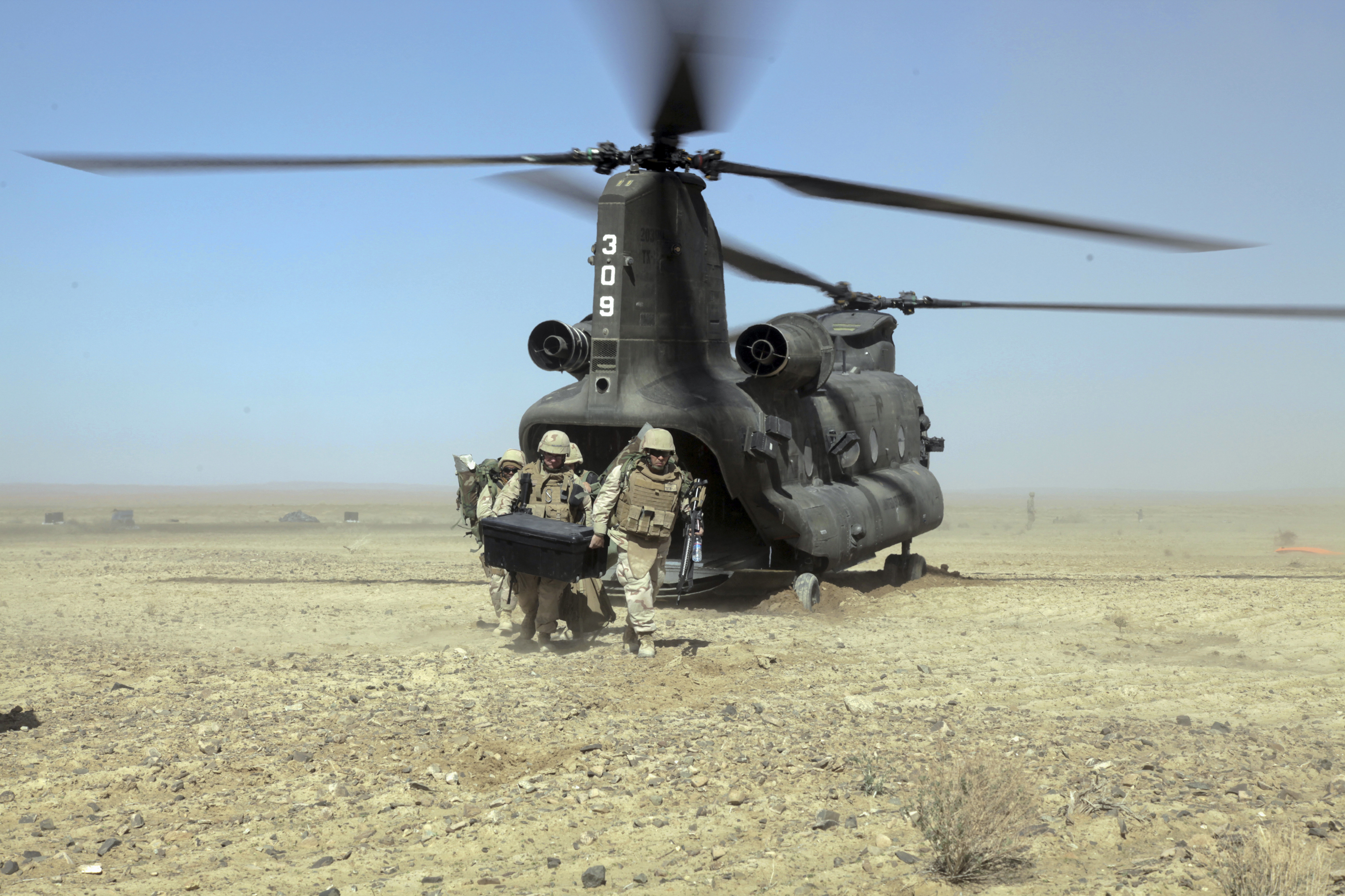 SHORABAK, Afghanistan (March 8, 2011) Seabees assigned to Naval Mobile Construction Battalion (NMCB) 26 depart a CH-47 Chinook helicopter in the Shorabak district, Kandahar province, Afghanistan after placing an Afghan border police checkpoint. NMCB-26 is part of Task Force Overlord supporting Operation Paksazi Mojadad. (U.S. Army photo by Sgt. Joseph J. Johnson/Released)